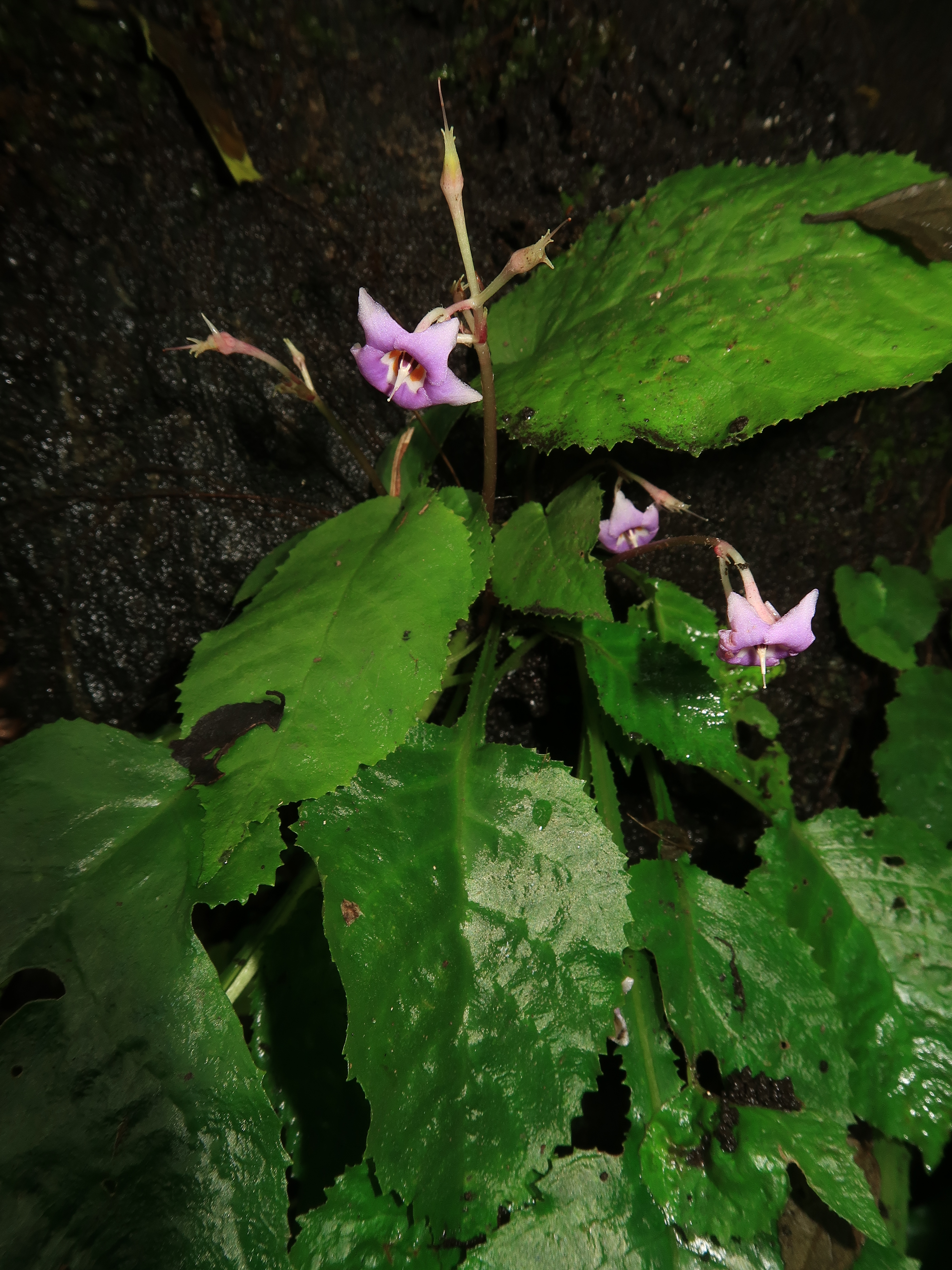 Conandron ramondioides, Hama-dori area, Fukushima pref., Japan